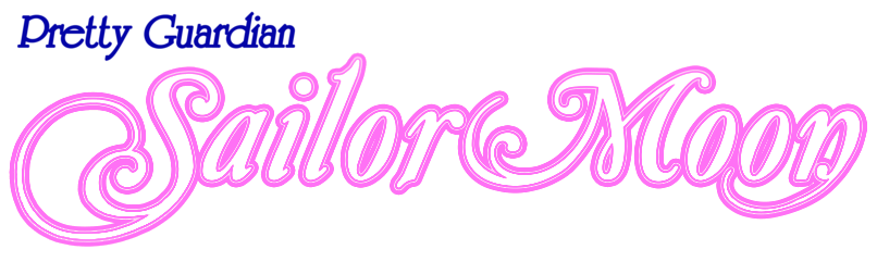 Logo of Sailor Moon” (美少女戦士セーラームーン ロゴ.